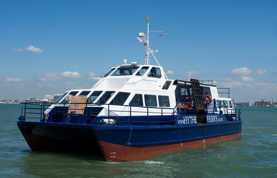 'Hythe Scene' in new Blue Funnel Ferries colours 2017